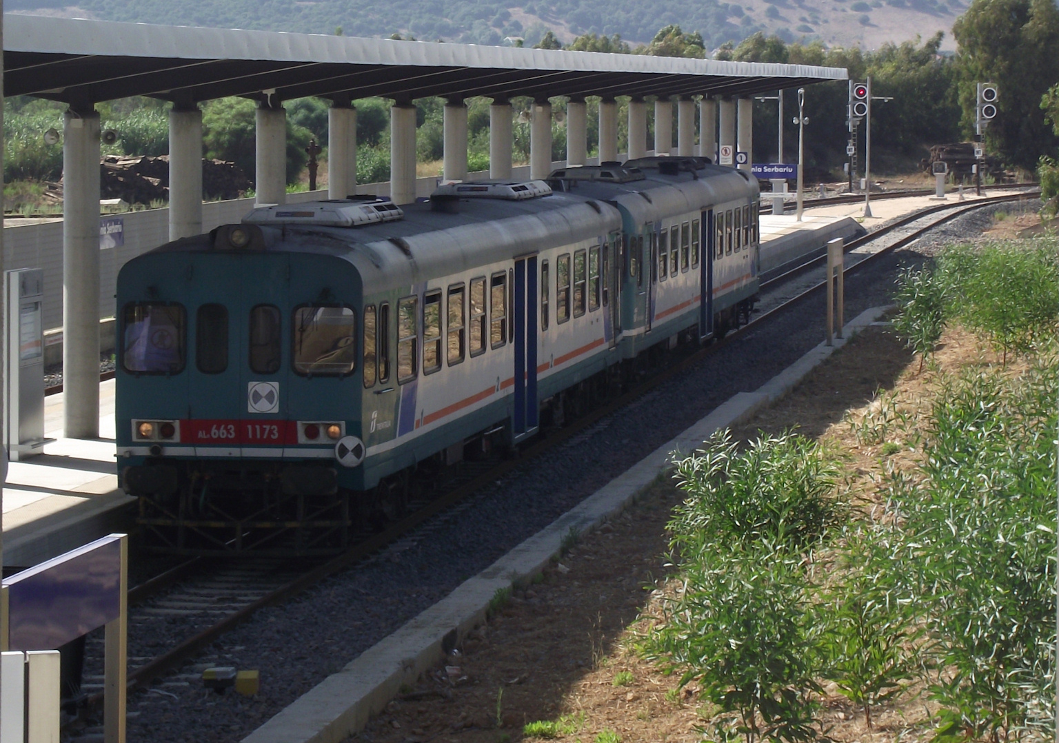 Trenitalia ALn 663 1173 coupled with an ALn 668 inside the Carbonia Serbariu station, in Carbonia, Sardinia, Italy